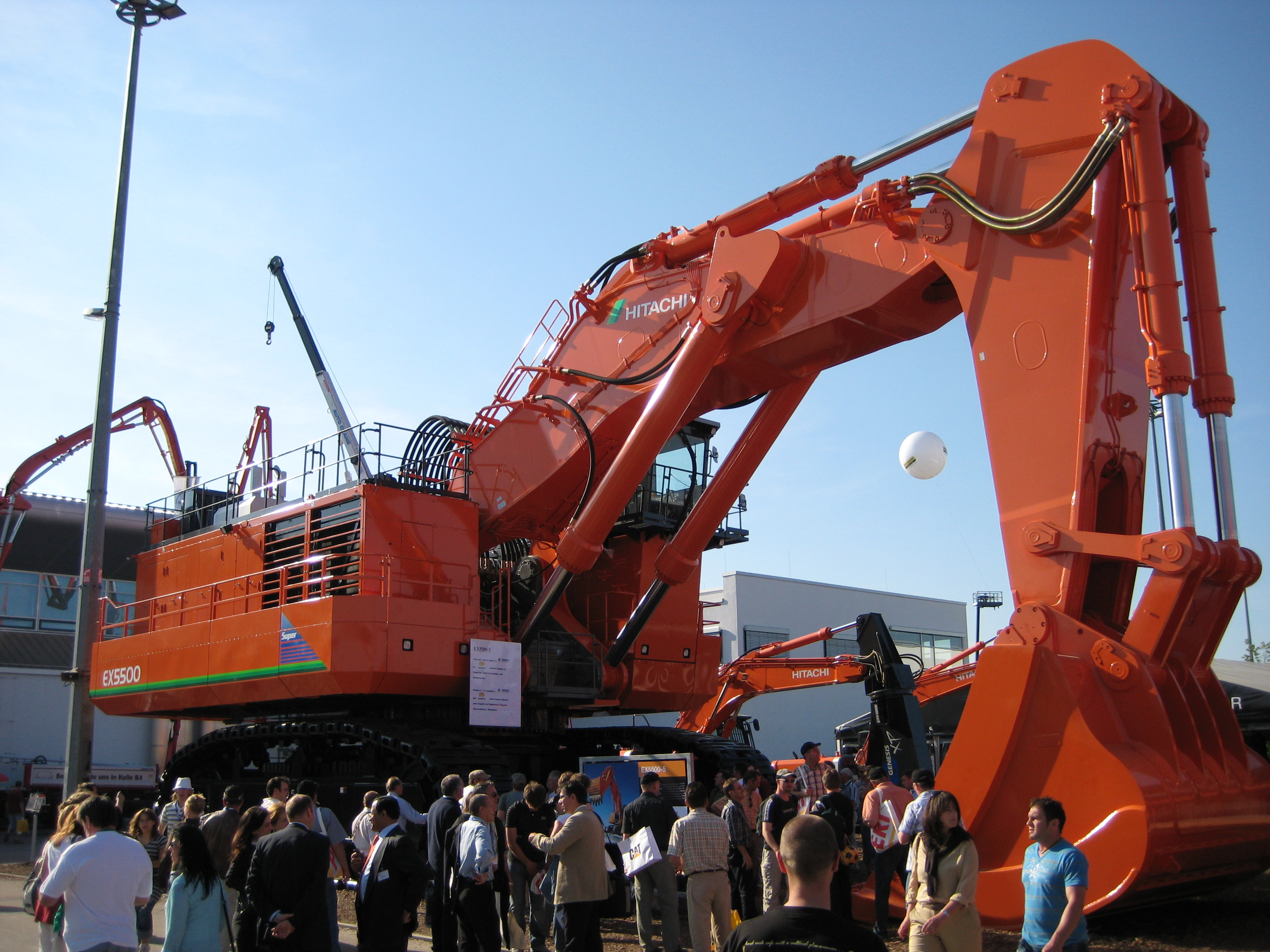 BAUMA 2007, Hitachi EX5500